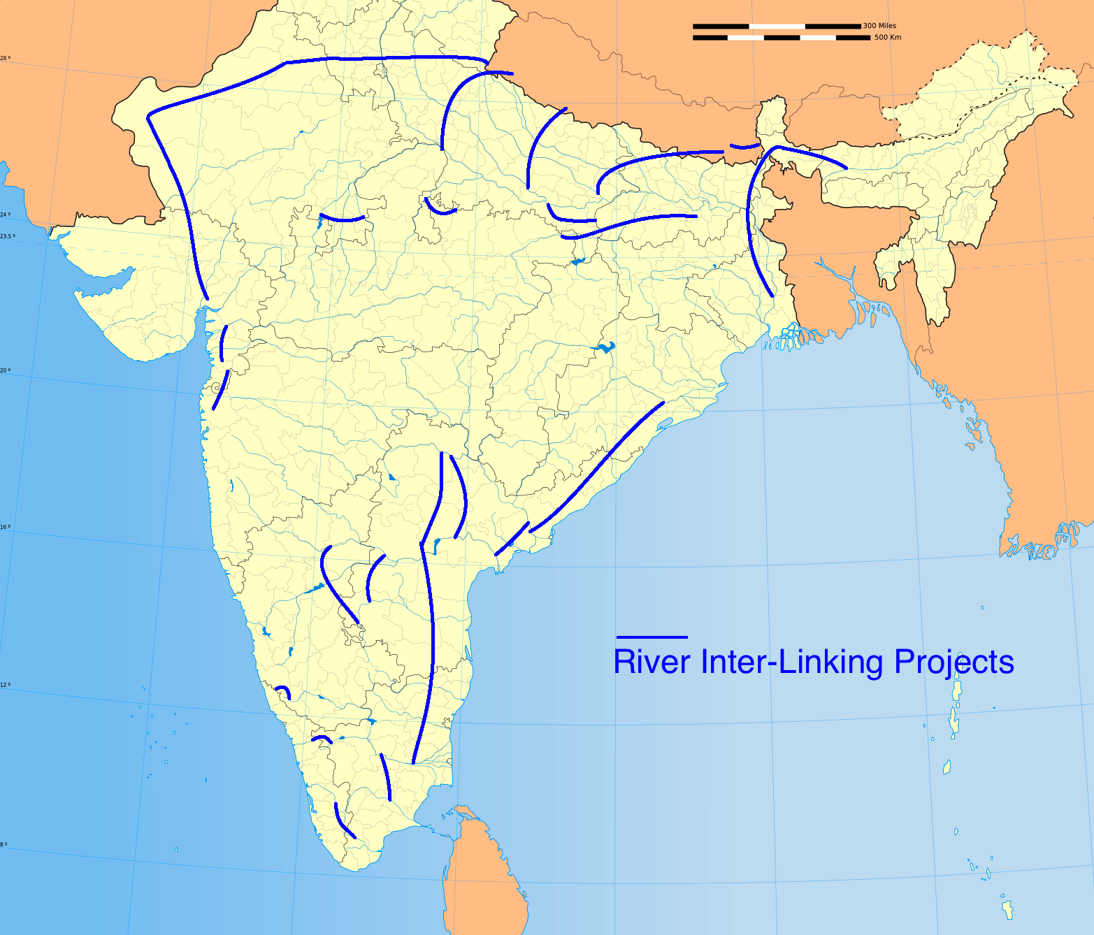 This is a derivative work on the map India_map_blank.svg available on wikimedia commons The data added (blue lines) is from the following source: National Water Development Agency, Government of India 1. Himalayan Component data: 2. Peninsular Component data